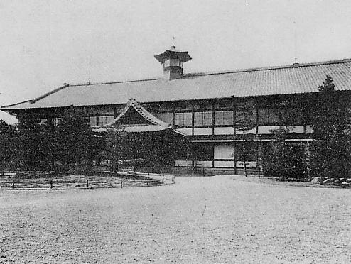 Kyoto City Hall in the Meiji era